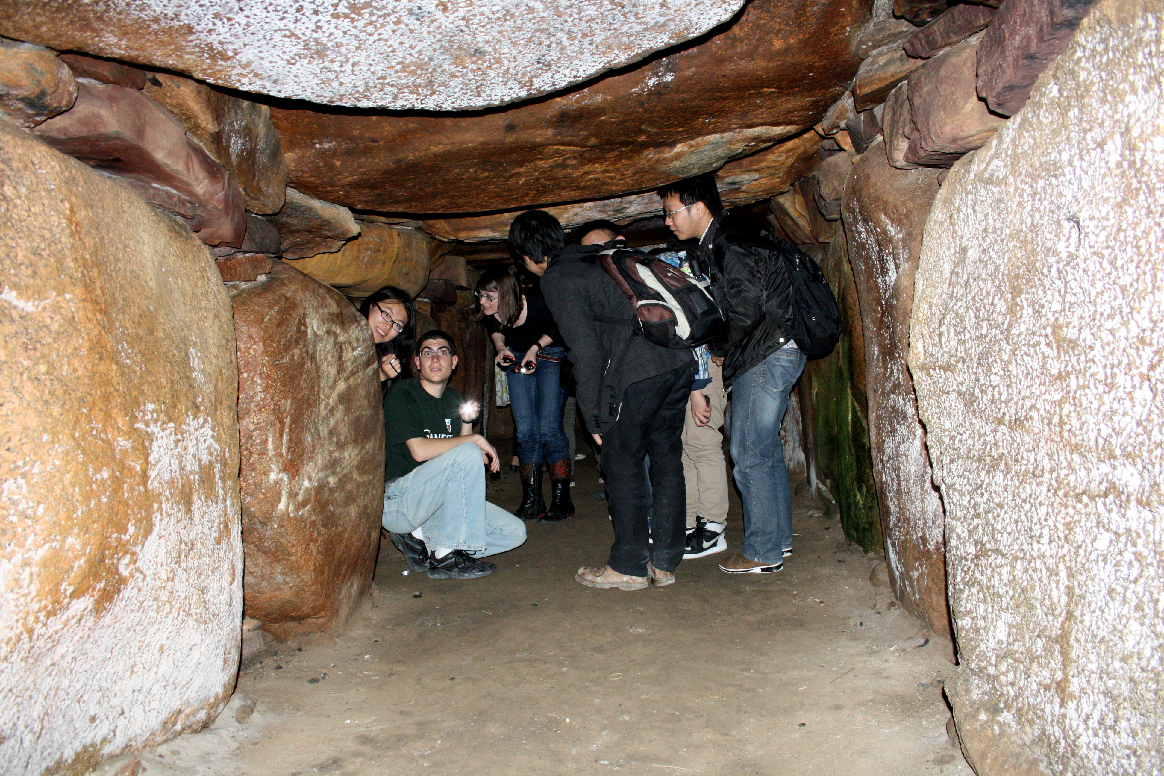 Kong Asgers Høj is one of the biggest passage graves in Denmark with an entry tunnel of 5 meters and a chamber of 10 meteres